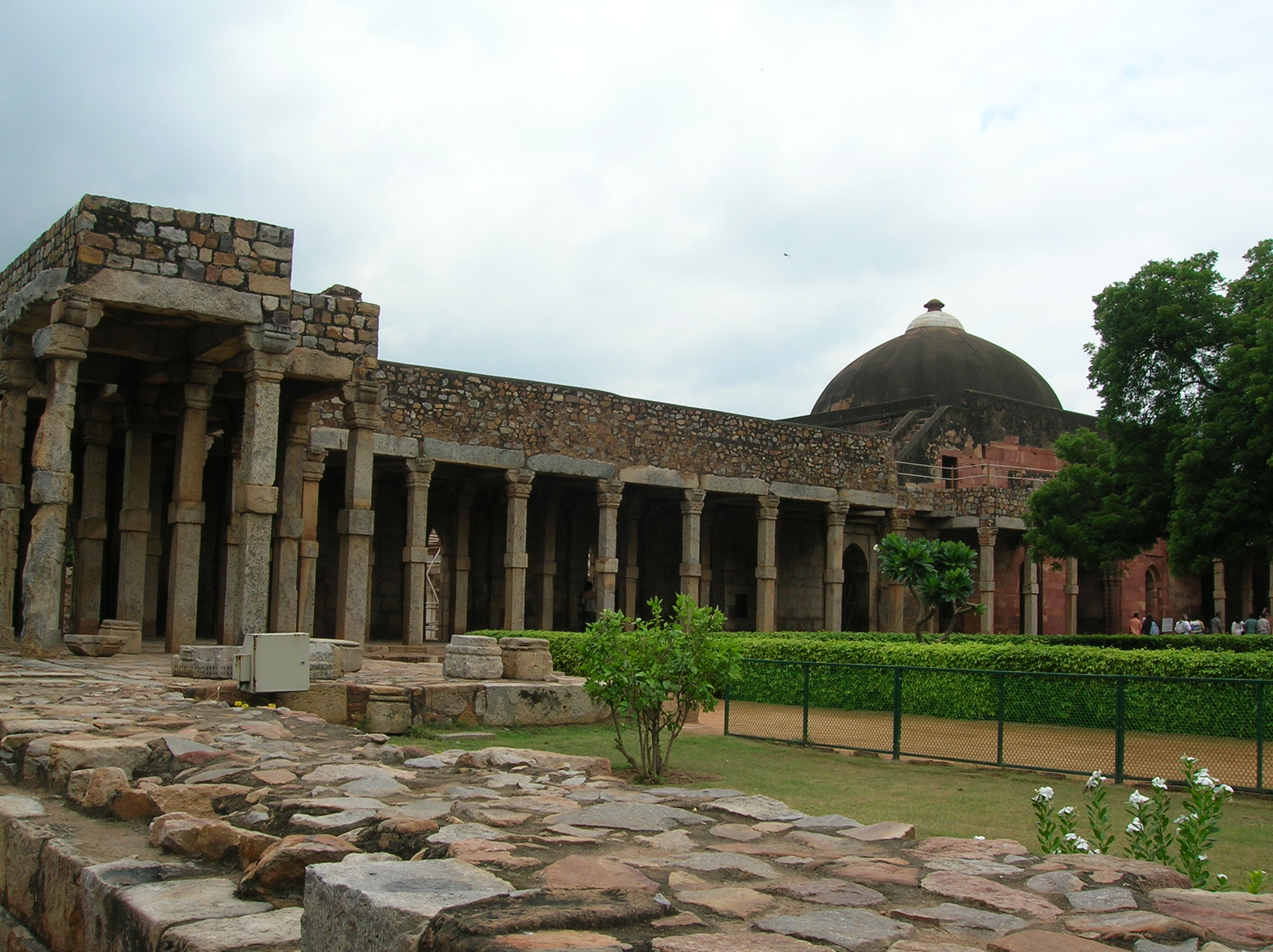 Courts outside Quwwat ul-Islam mosque, Qutb complex, added by Alauddin Khilji.